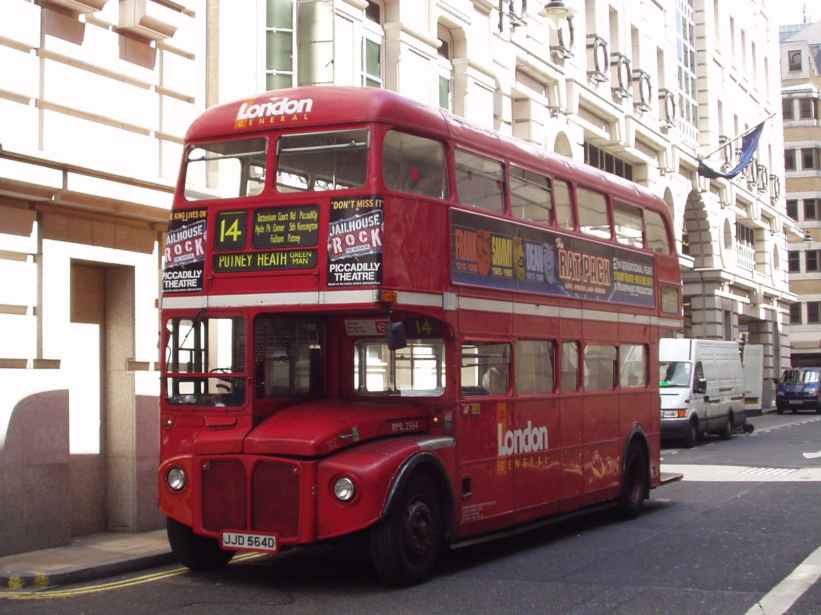 1966 Routemaster RML2564 in Jermyn Street, London